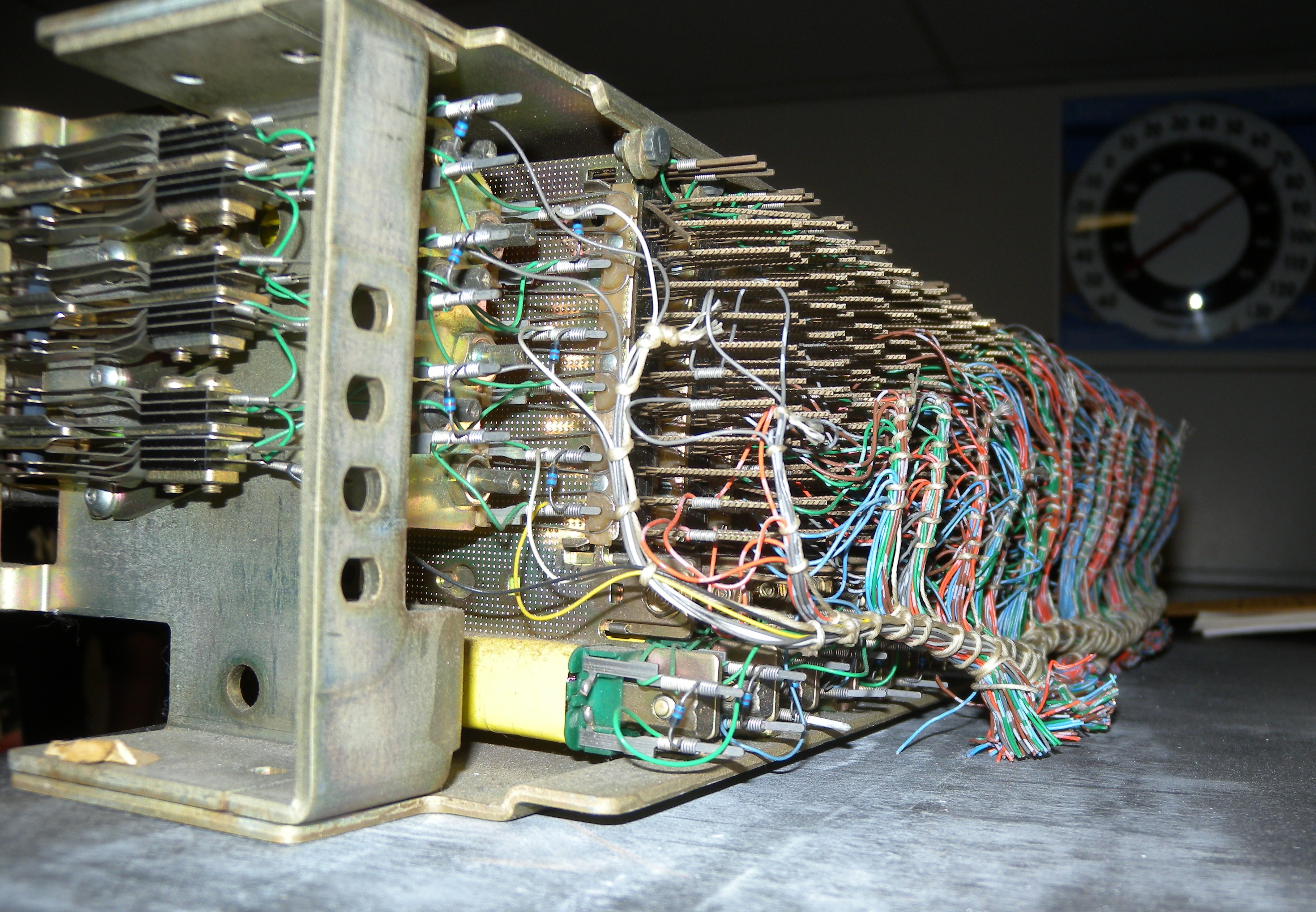 Back side of a Type C crossbar switch, showing Horizontal Off Normal contacts.